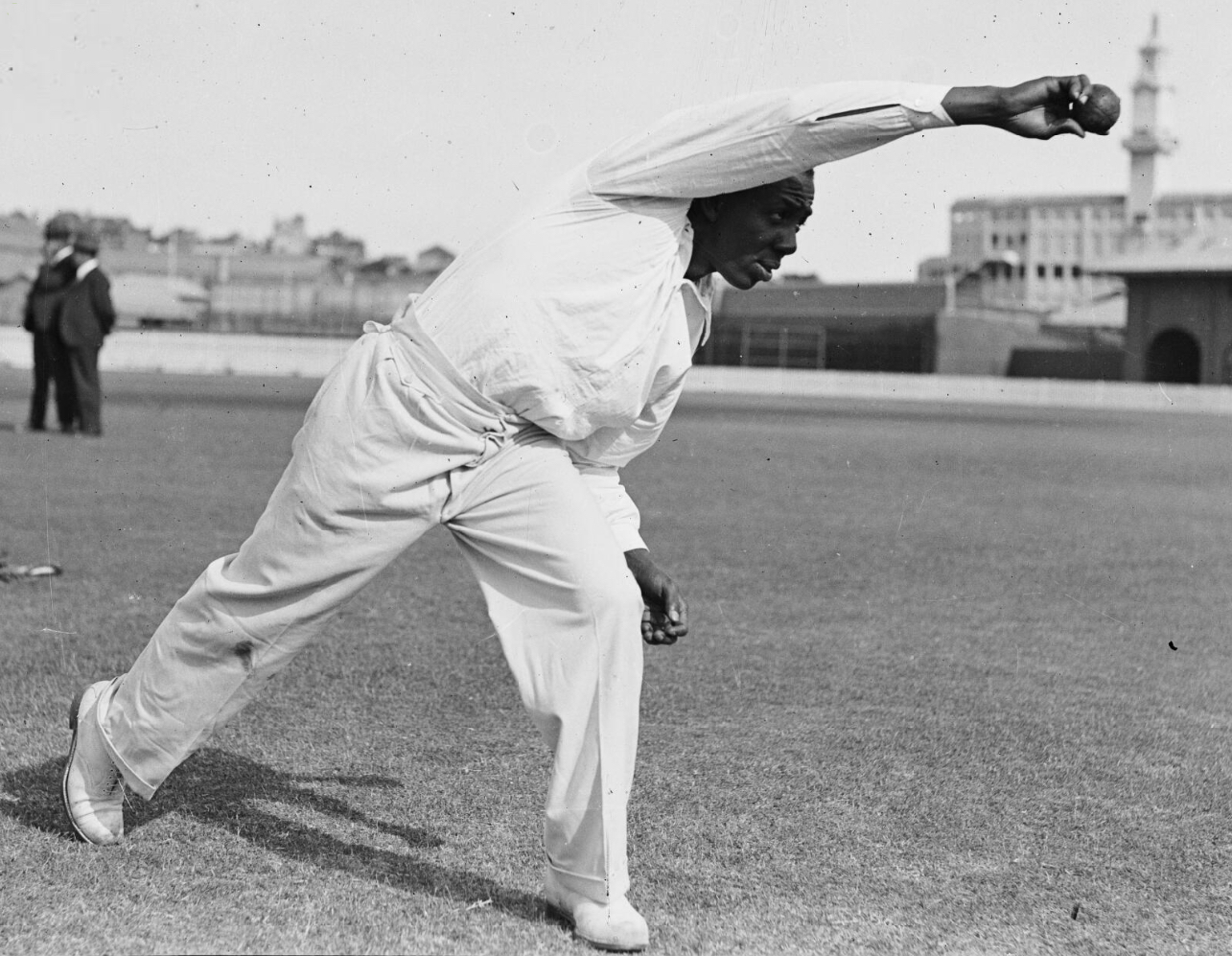 Learie Constantine demonstrates his bowling action during the West Indian cricket team's tour of Australia in the 1930–31 season